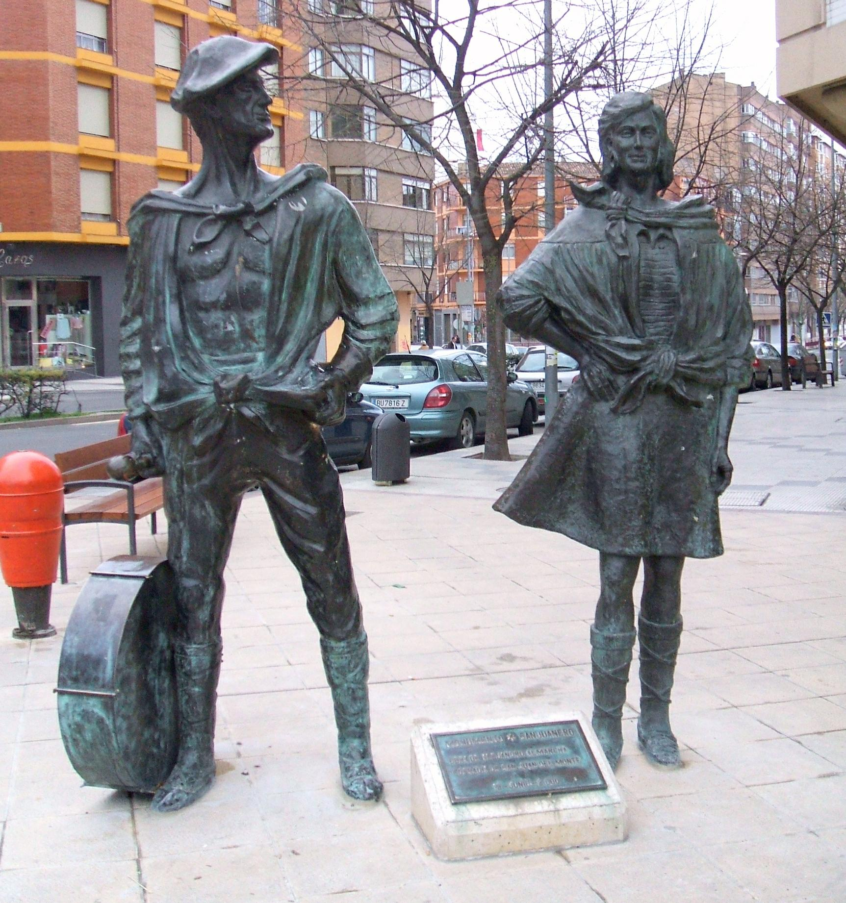 Monumento Sanjuanero, obra de Alejandro Almarcha, en Miranda de Ebro (Burgos, Castilla y León, España)